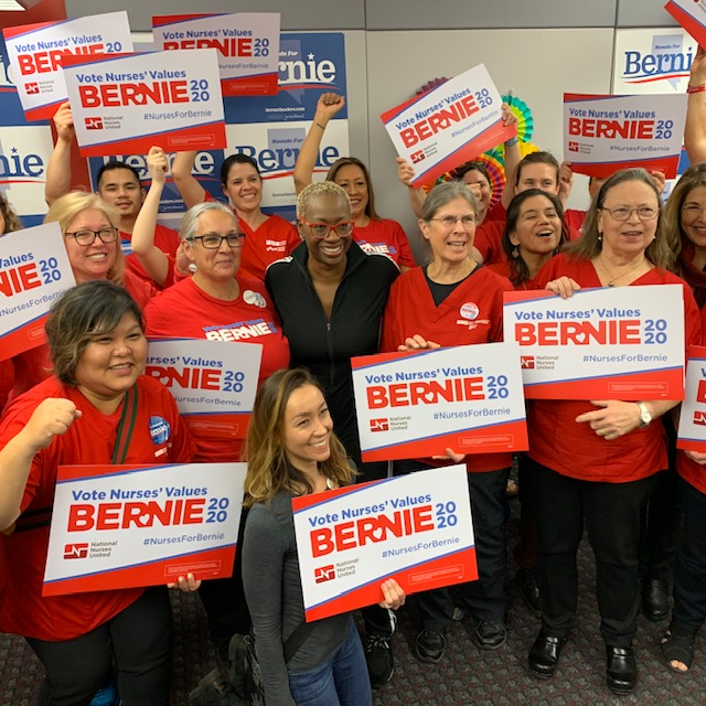 Feb., 21, 2020, One Day Before Nevada Caucus. Members of National Nurses United rally with former Ohio legislator Nina Turner before knocking on doors for Presidential Candidate Bernie Sanders